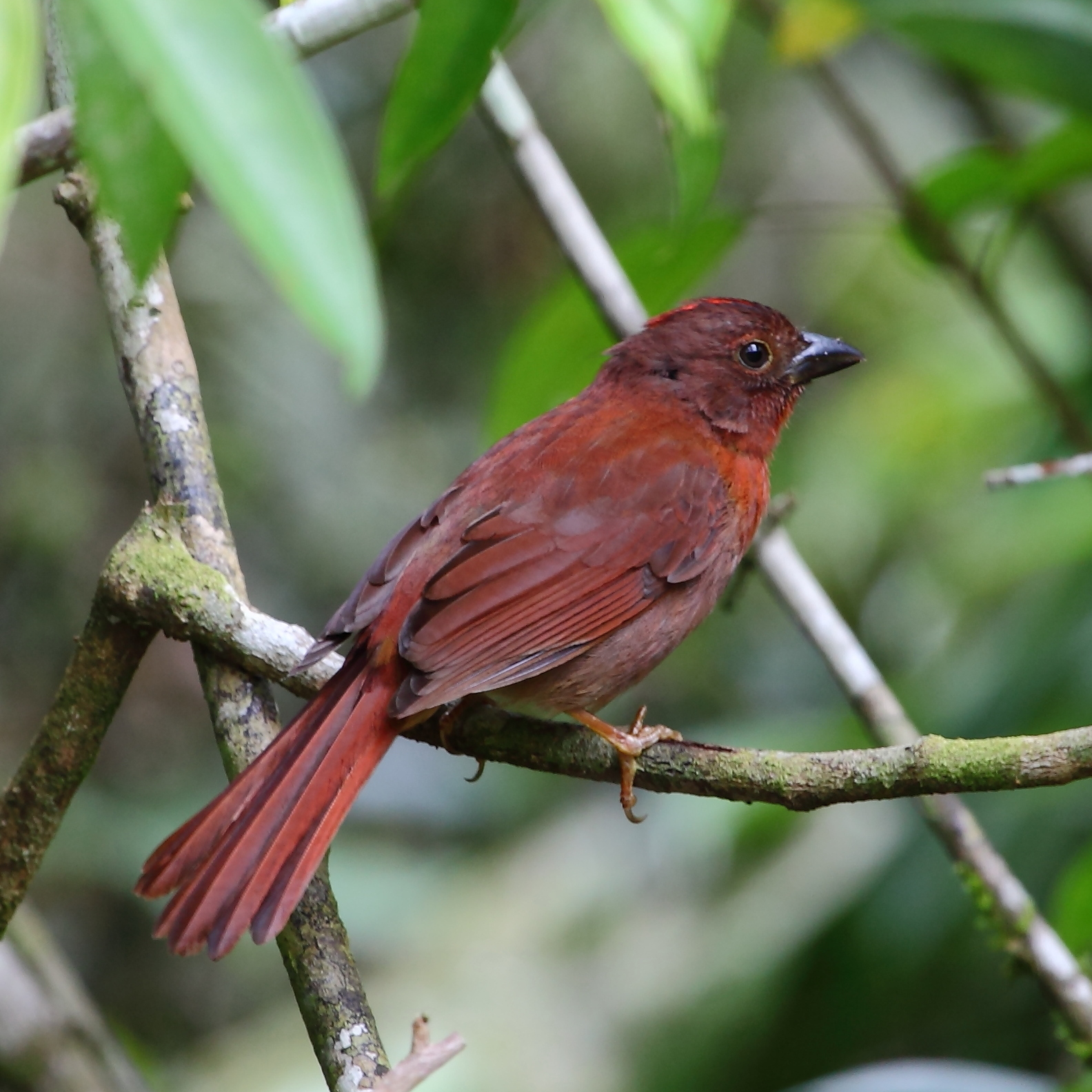 Red-crowned Ant-Tanager (male) at Restinga de Bertioga State Park - SP - Brazil